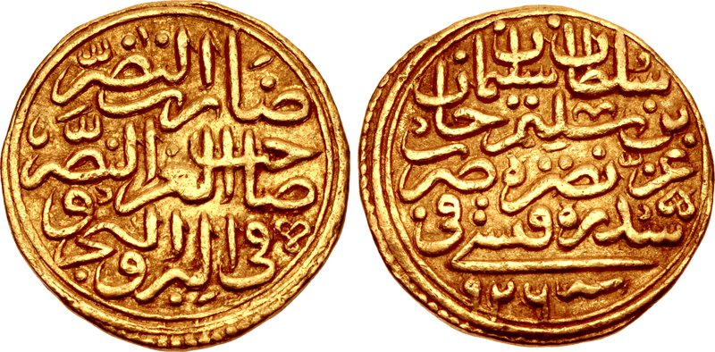 ISLAMIC, Ottoman Empire. Sulayman I Qanuni ('the Lawgiver'). AH 926-974 / AD 1520-1566. AV Sultanȋ – Altın (18mm, 3.54 g, 9h). Sidraqapsi (Sidherokpsa) mint. Dated AH 926 (30 September- 11 December AD 1520). Cf. Damali 10-SD-A3 (for type); Sultan 1075-6; cf. Pere 187 (same); Album 1317. VF, areas of light toning, slightly wavy flan. Rare mint.